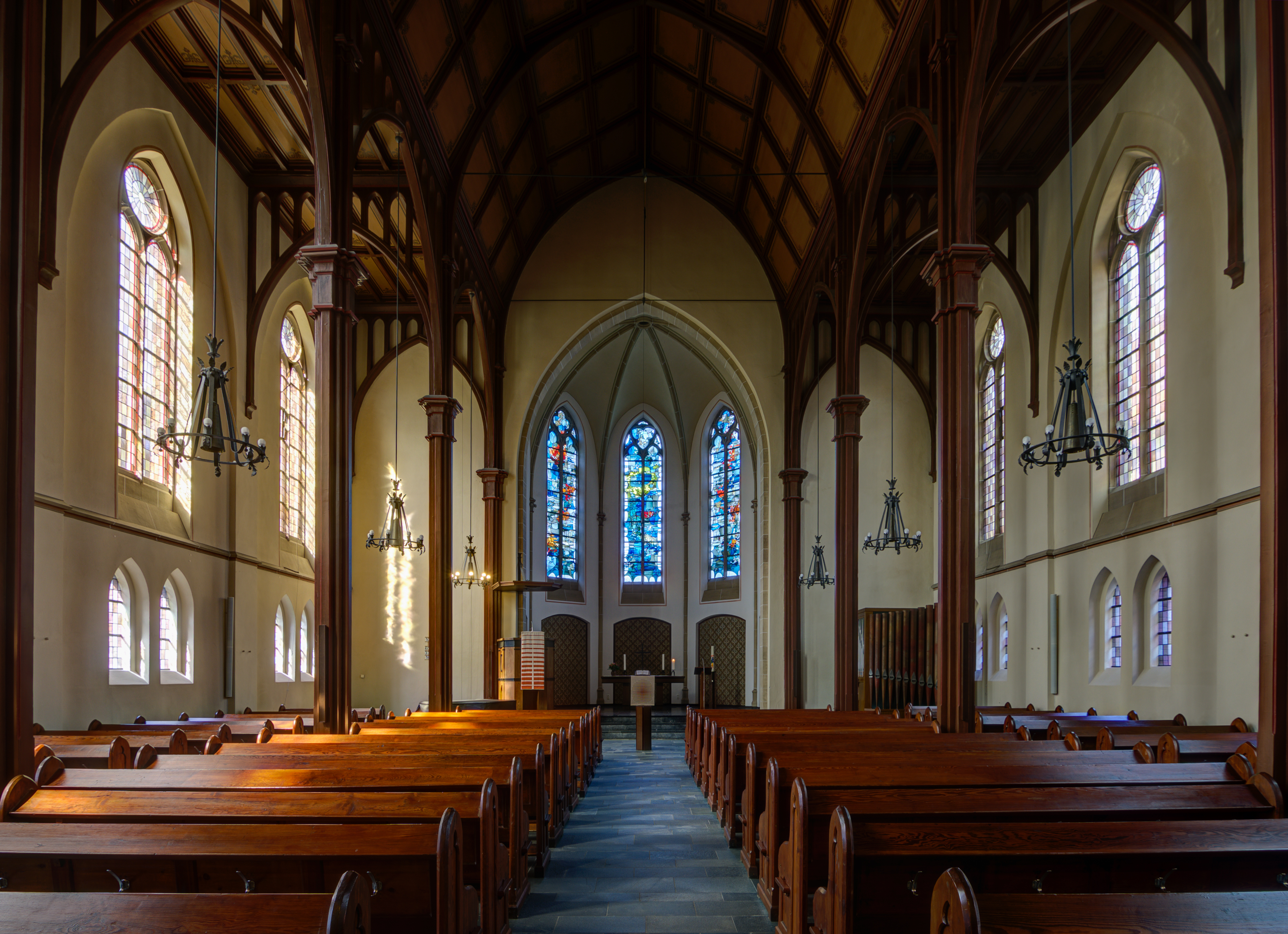 Mülheim (North Rhine-Westphalia, Germany) – district Speldorf – Protestant Luther Church – view through the nave to the choir